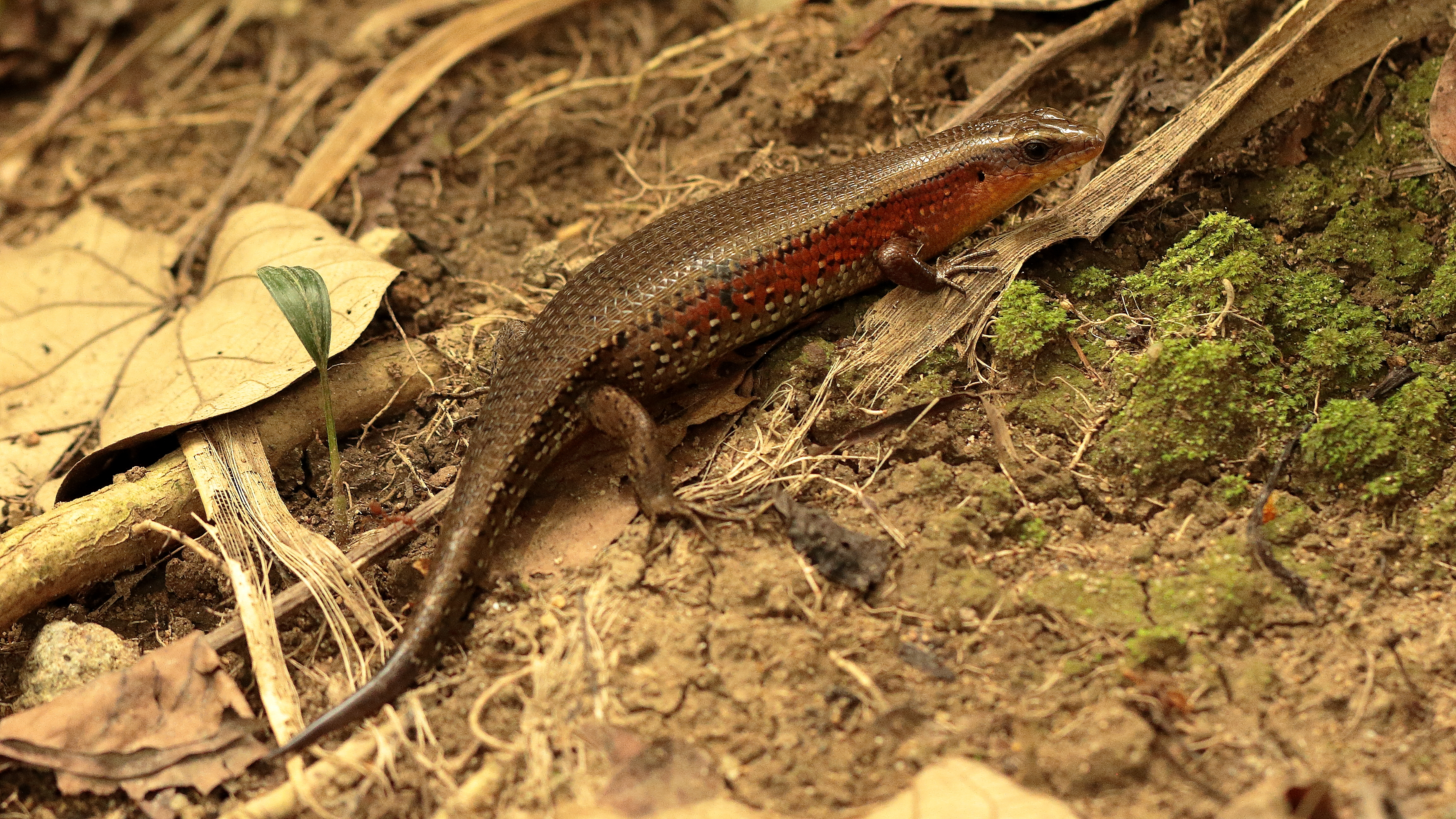 A skink (most likely the common Sun Skink) alongside the Berlayer Creek Boardwalk in southern Singapore on January 20, 2020. Was about 20cm from snout to end of tail.